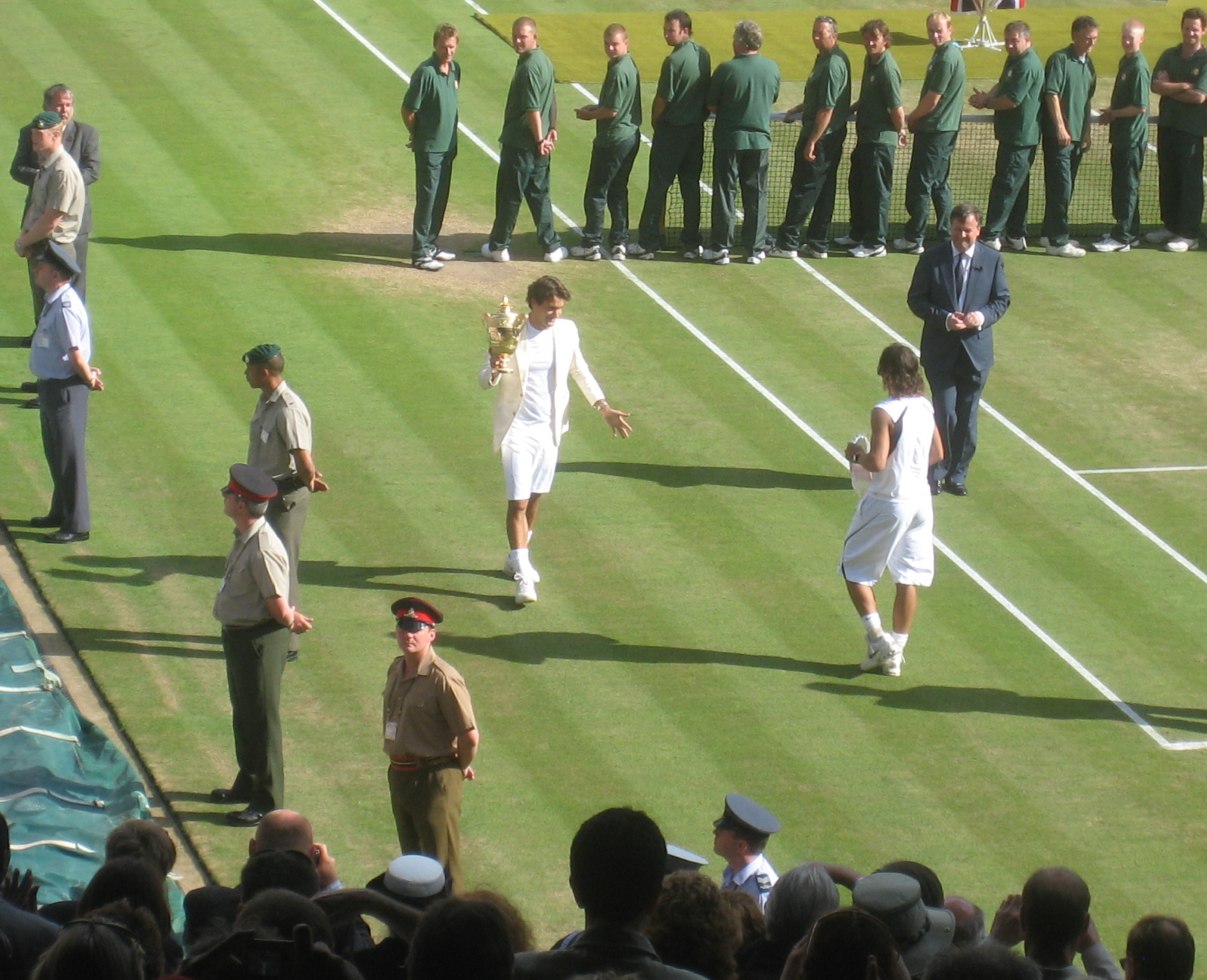 Parading the trophies